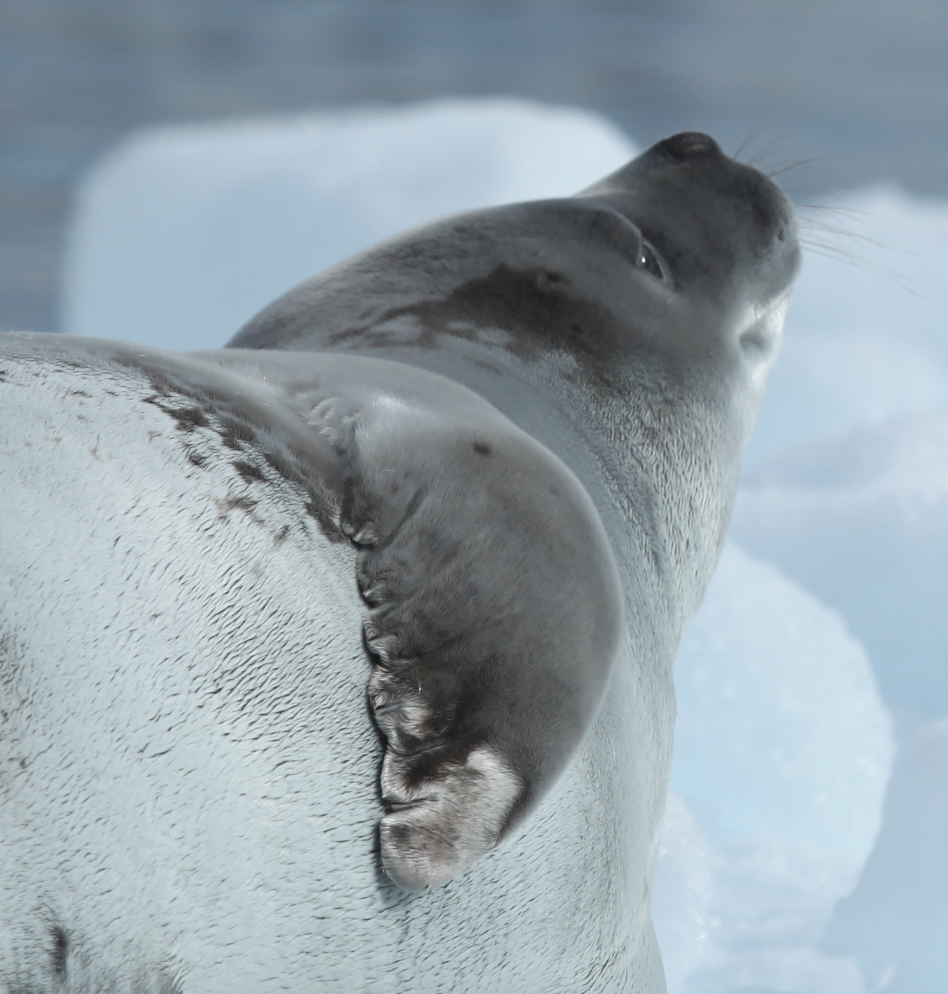 Crabeater Seal's flipper